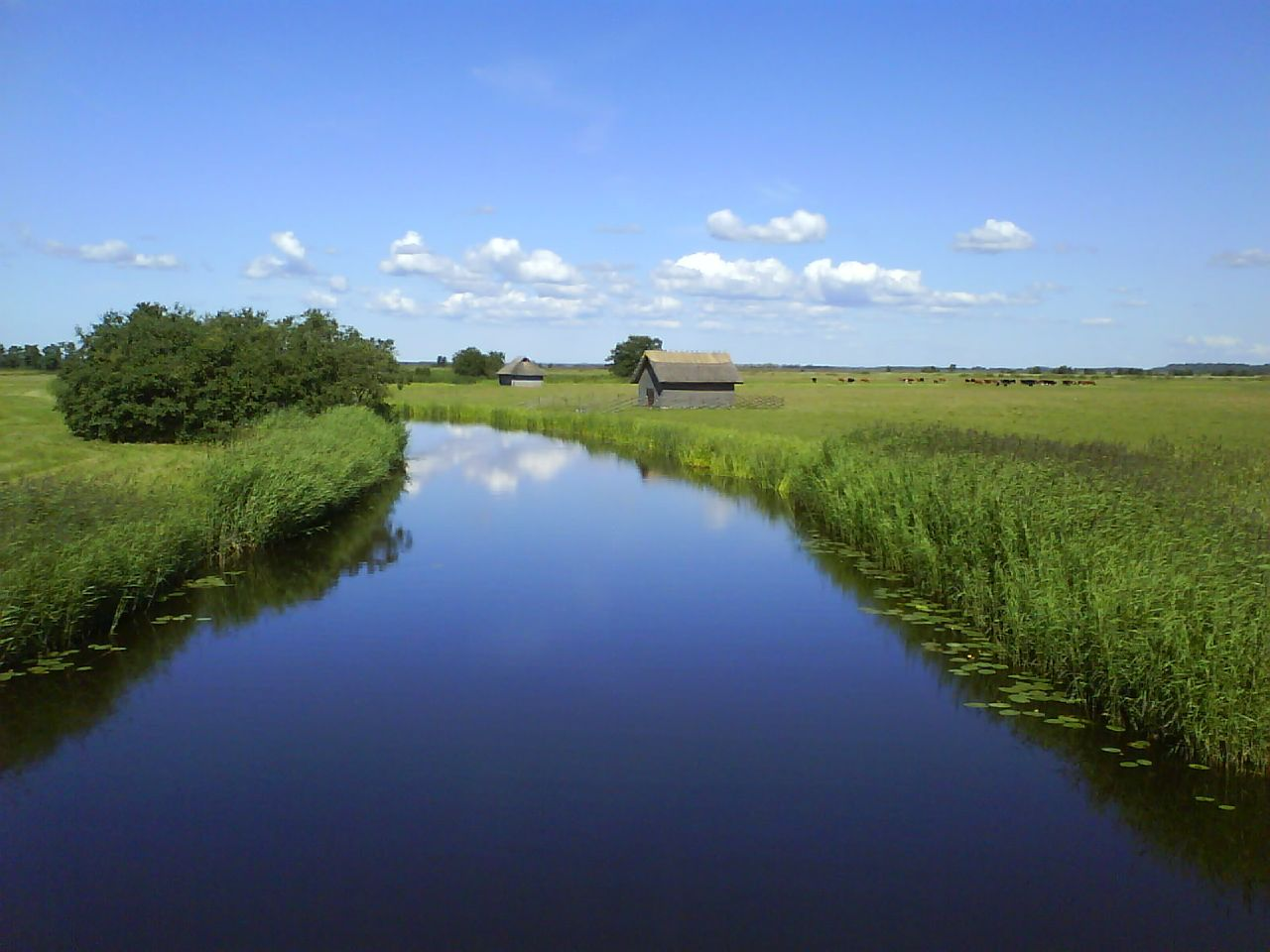 Matsalu National Park, Lääne County, Estonia.